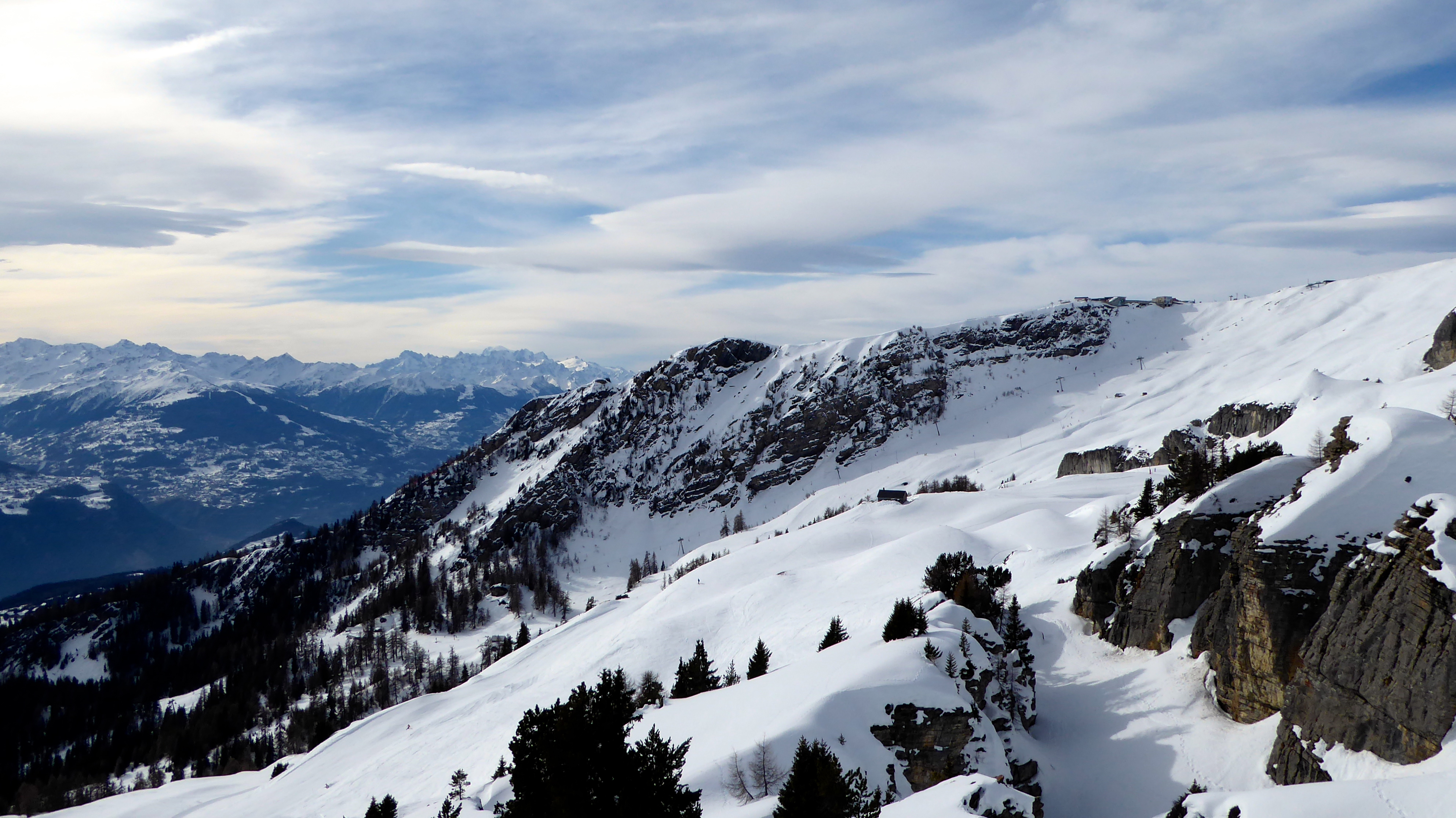 SWISS ALPS near Crans Montana in January